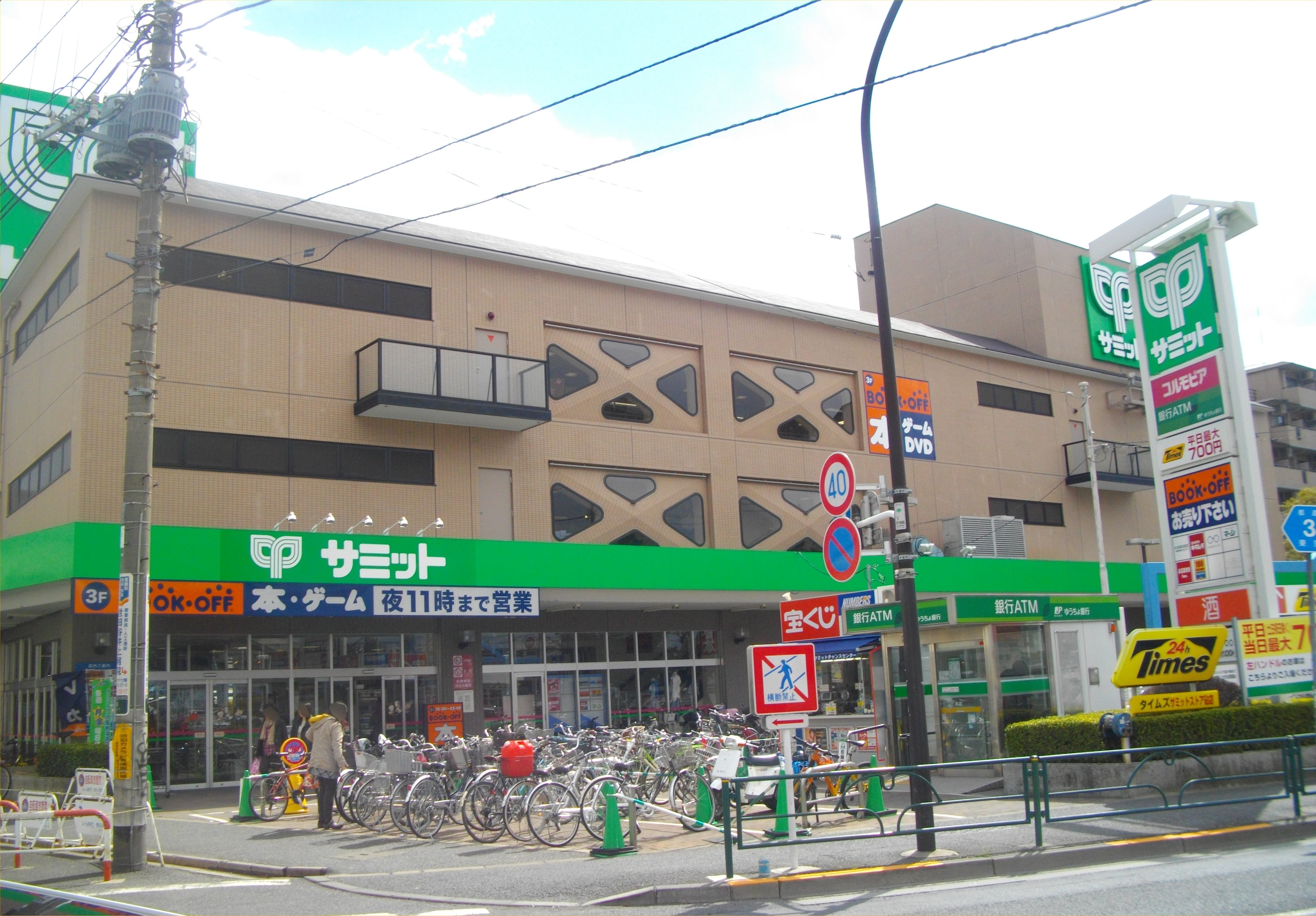 A photo of Summit(a supermarket in Tokyo.) Kinuta branch shop. Kinuta,Setagaya-ku,Tokyo,Japan.